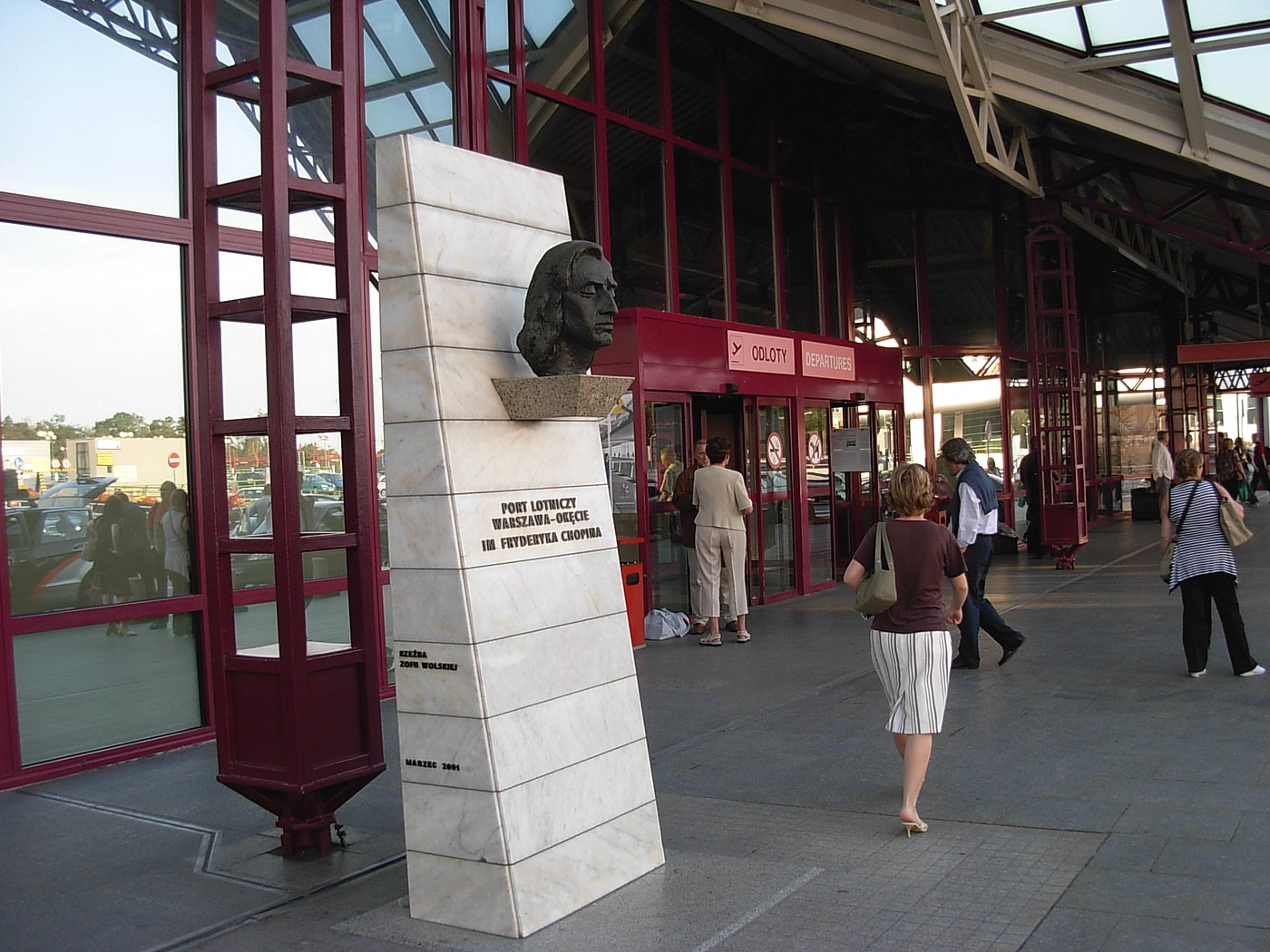 Okęcie Airport in Warsaw (WAW), Chopin's bust at the Terminal 1